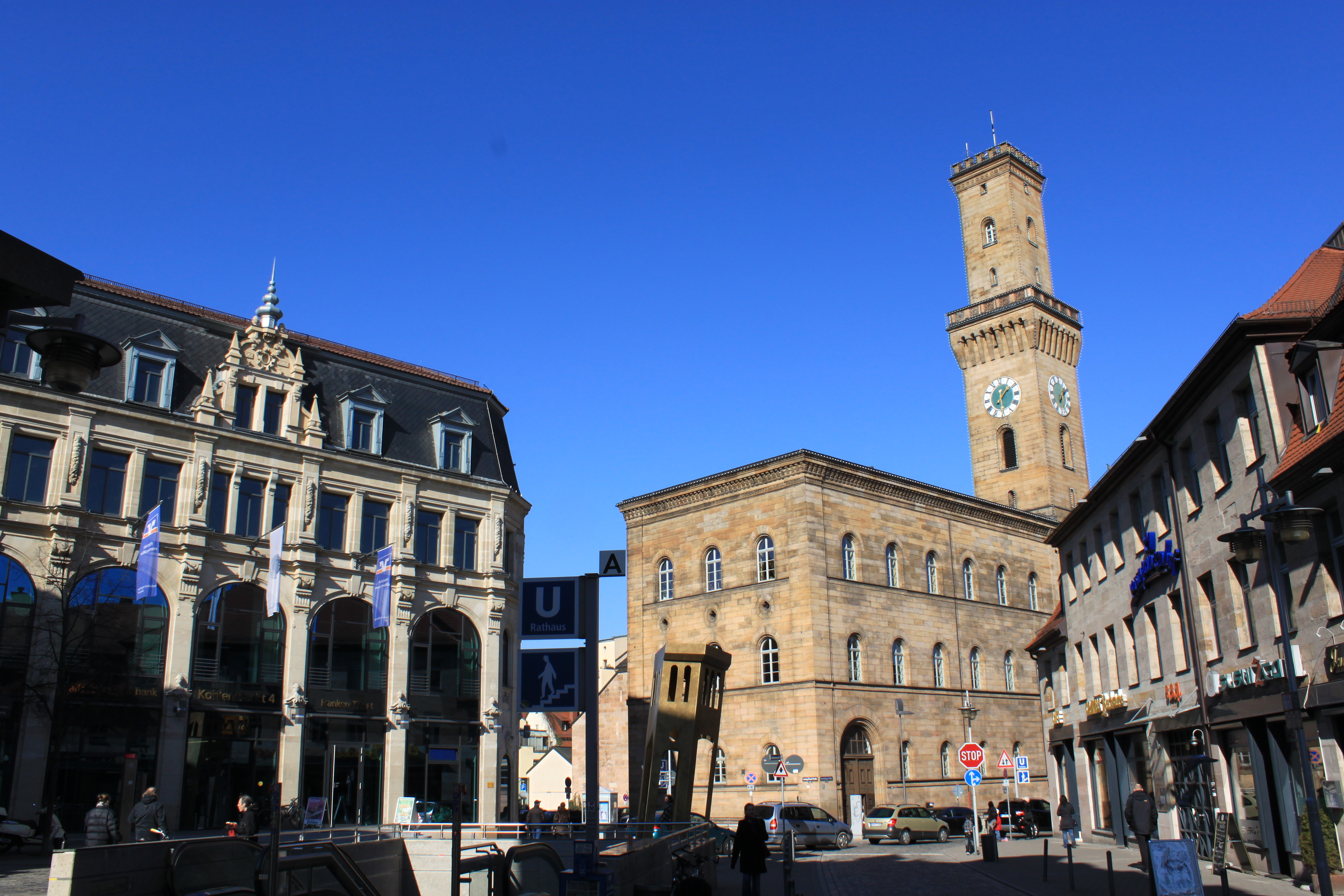 City of Fürth, Kohlenmarkt